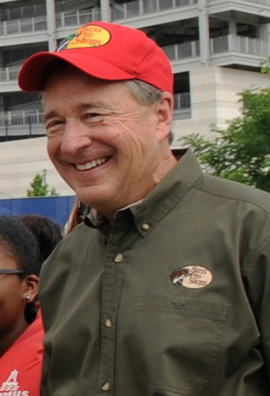 John Morris, founder of Bass Pro Shops. Photo is a derivative of [File:Sally Jewell and Johnny Morris with students.jpg